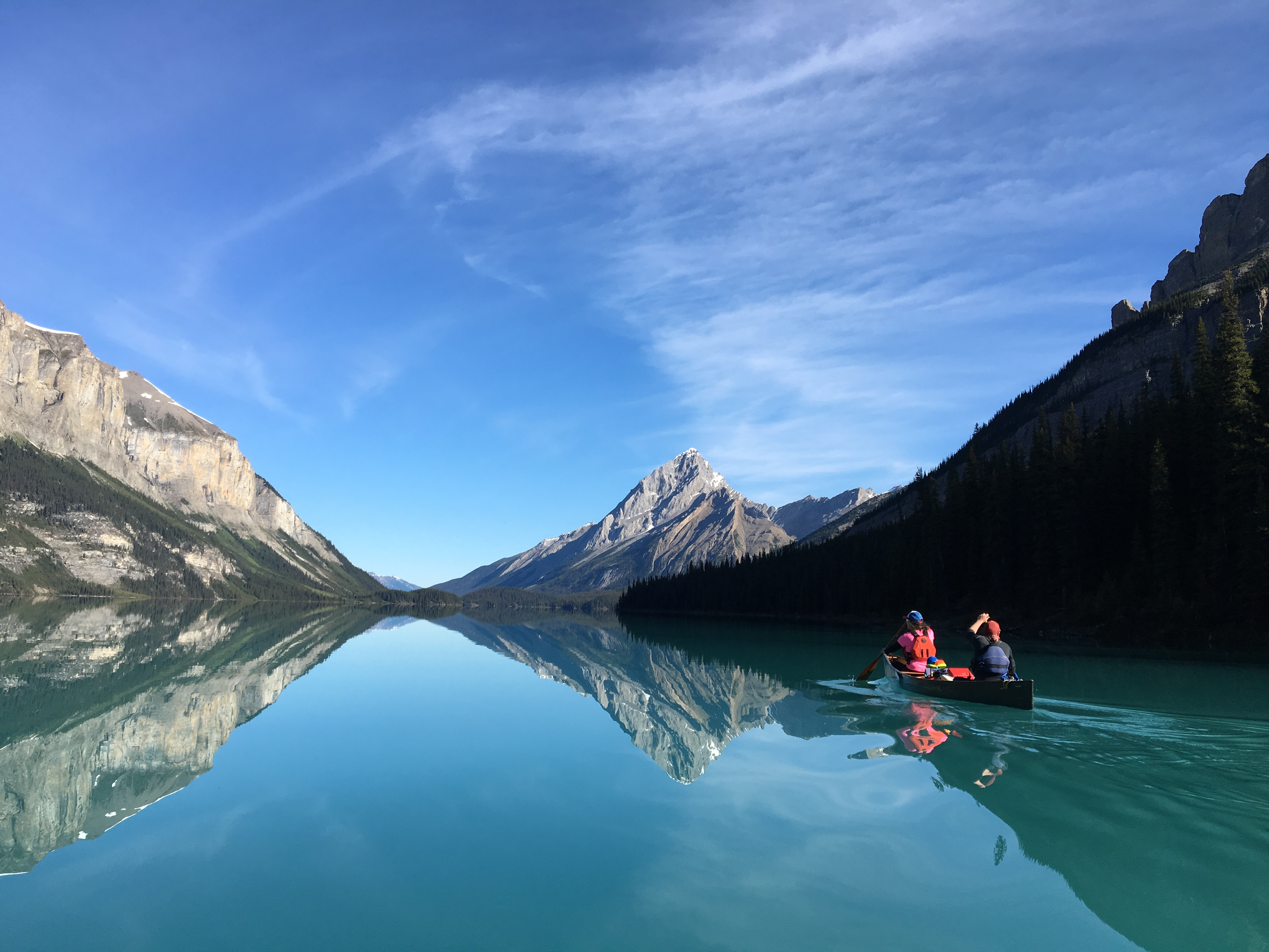 No photo editing. Taken on an iPhone. This photo was taken in a protected area in Canada, Wikidata item Jasper National Park (Q503429)